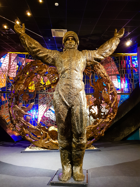 Центральный элемент оформления вводного зала «История мироздания» - бронзовые скульптура космонавта и зодиакальный круг на фоне мозаики из цветного горного хрусталя. Автор - Олег Петрович Ломако, 1981-й год. Московский музей космонавтики на ВДНХ